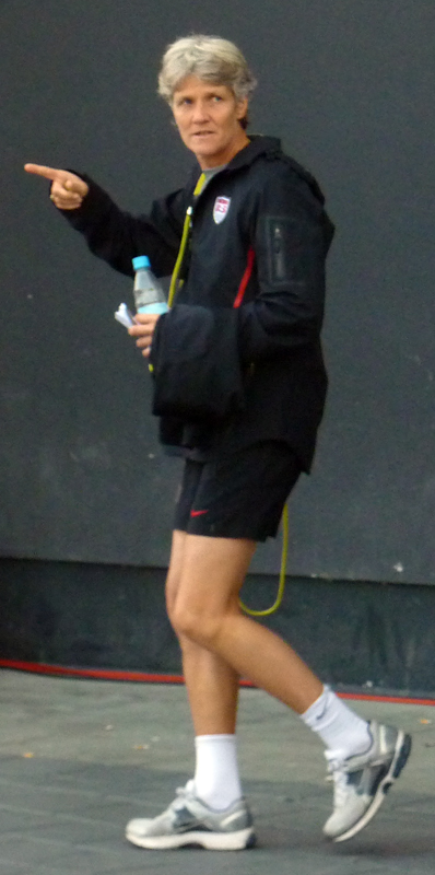 Pia Sundhage, 2011